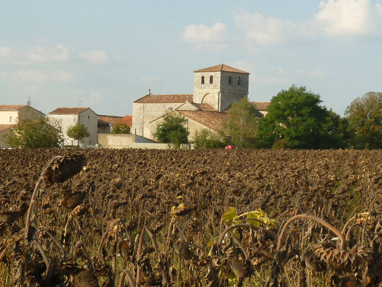 church of Bunzac, Charente, SW France